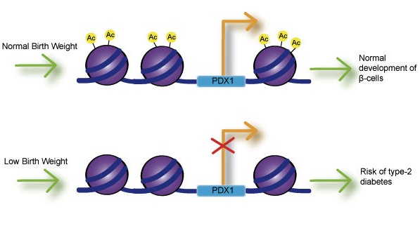 PDX1 is an essential transcription factor for proper development and function of pancreatic beta cells. Poor maternal nutrition is linked to intrauterine growth restriction (IUGR) and low birth weight, and can result in decreased expression of PDX1 through decreased histone acetylation at the PDX1 proximal promoter. Reduced expression of PDX1 may result in improper formation of beta cells and increase the risk of type-2 diabetes in the offspring.